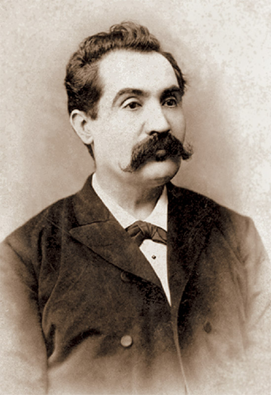 Jean Bielig - Portrait of Mihai Eminescu (1850 - 1889), Botoşani, 1887-1888